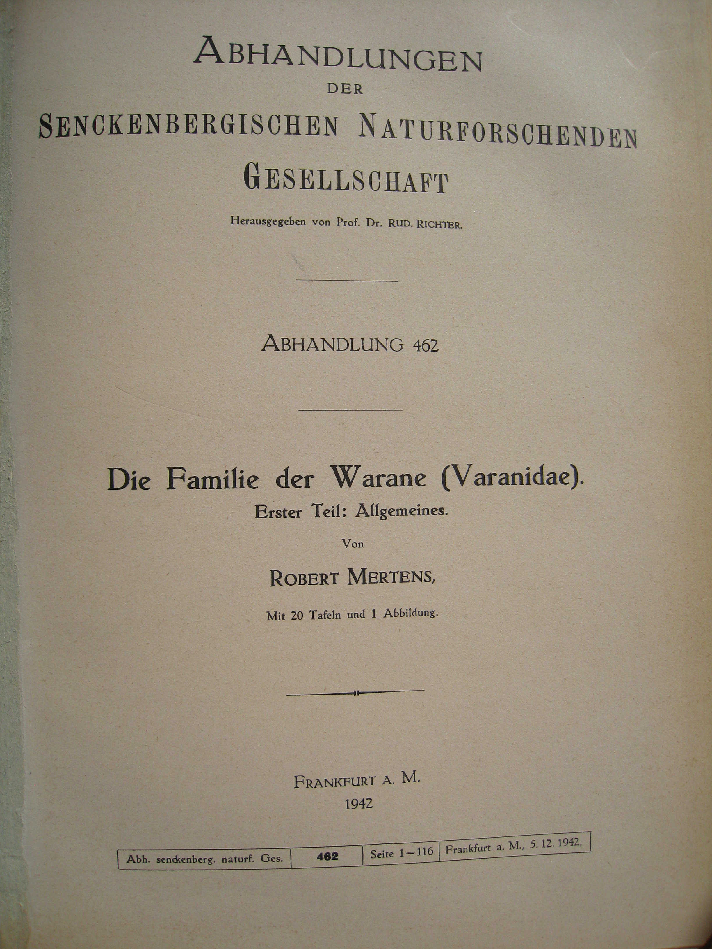 First page of Robert Mertens (1942): "Die Familie der Warane (Varanidae). Erster Teil: Allgemeines"